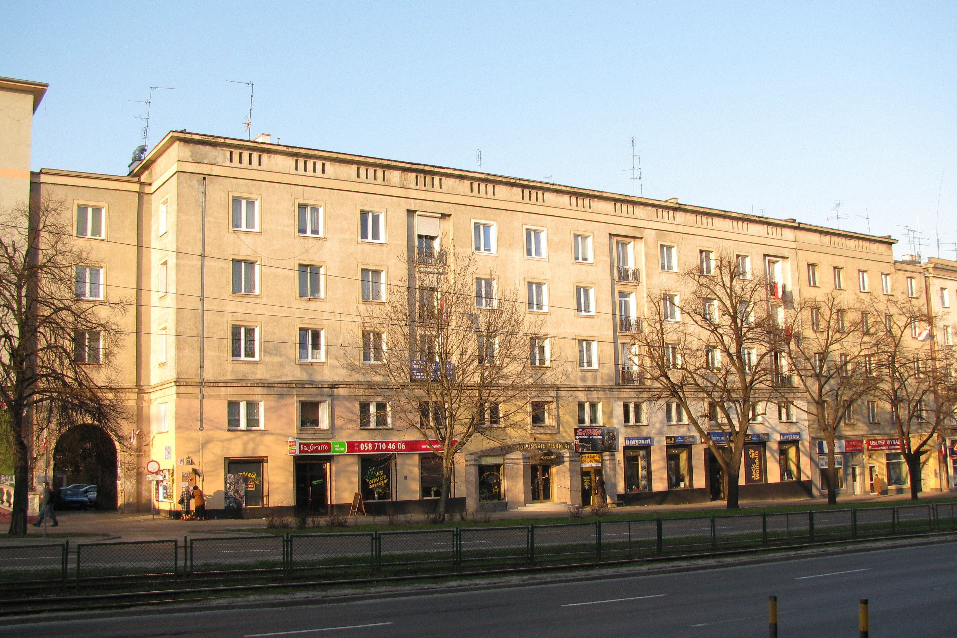 The house of Anna Walentynowicz. 49 Grunwaldzka Street, Gdańsk-Wrzeszcz.